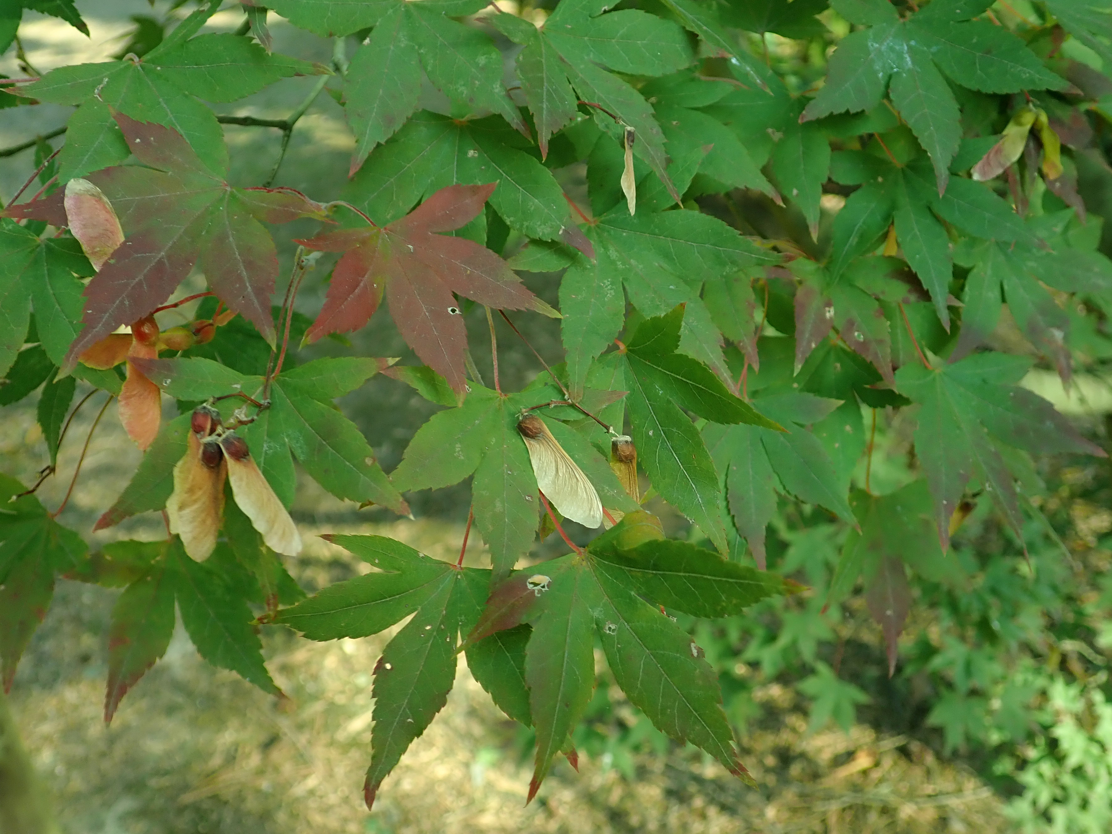 Acer pubipalmatum, arboretum in Glinna, Poland.